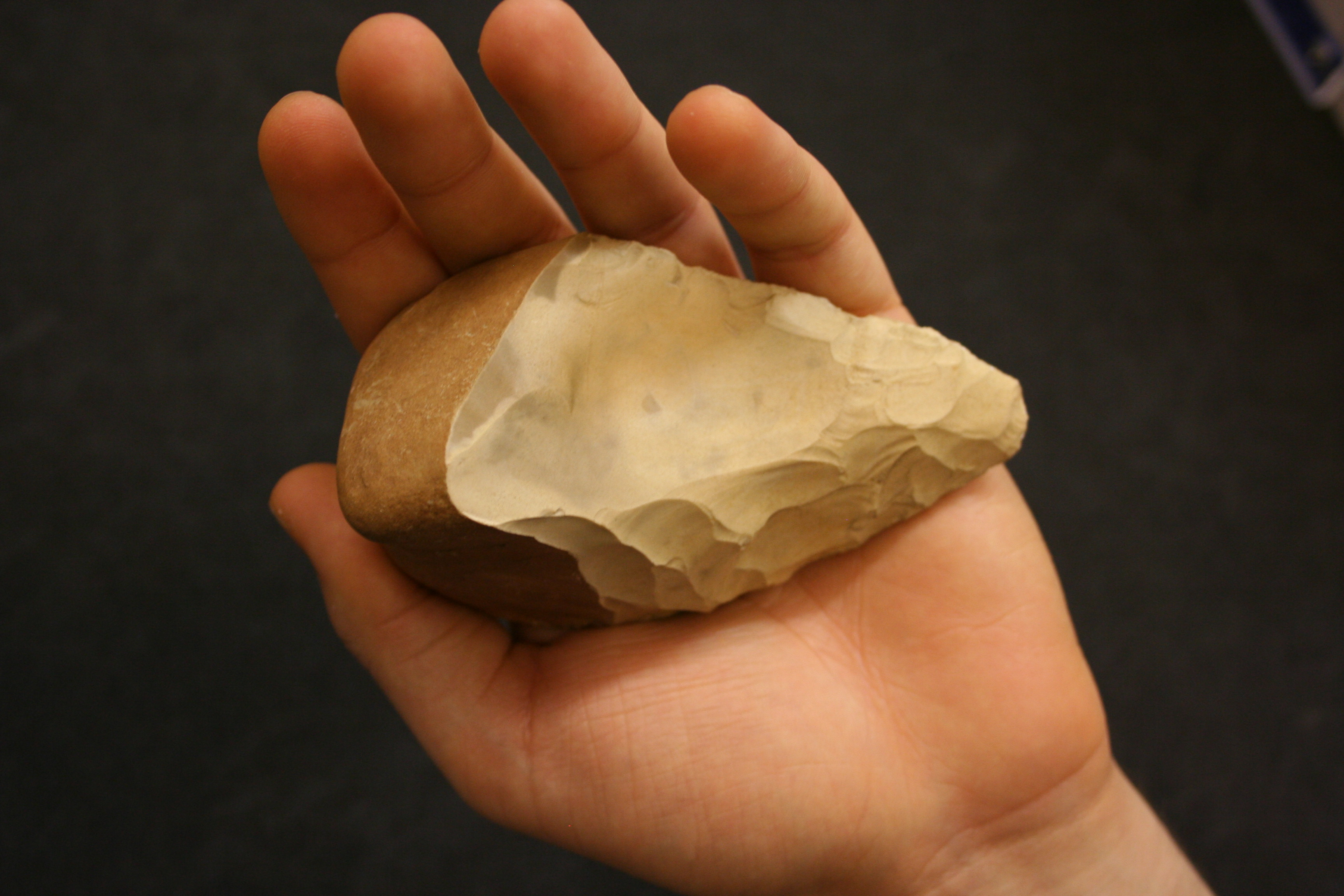 An Ice Age hand axe. Taken at the GLAM event on the 13 October 2011 at the British Museum.